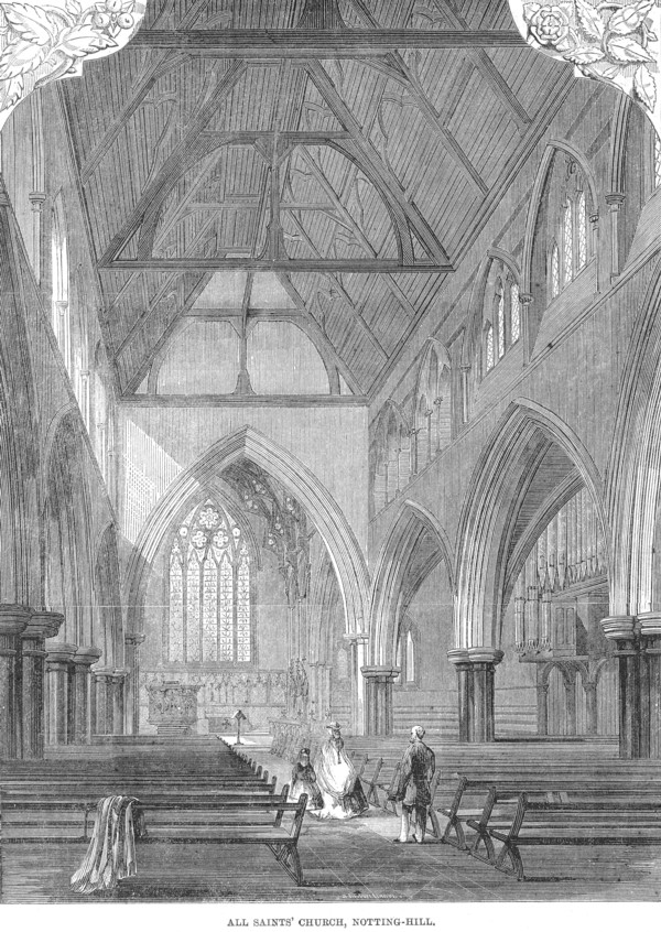 illustration of the interior of All Saints' parish church, Notting Hill